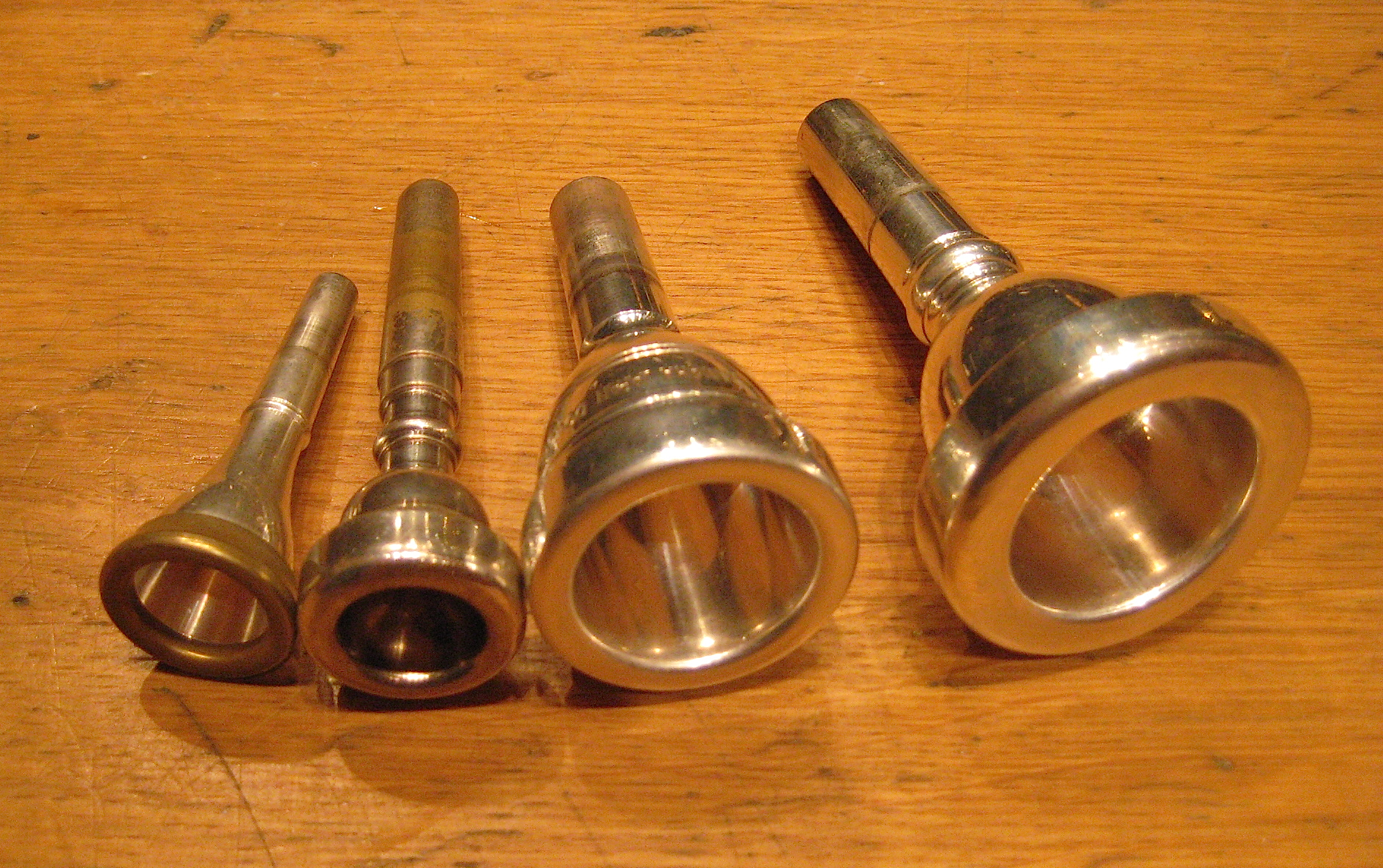 Brass mouthpieces - from left to right: french horn, trumpet, trombone, tuba